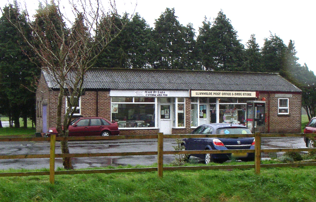 Post Office On the left - Hair BY Sara. On the right - Llanmiloe Post Office and Drug Store.